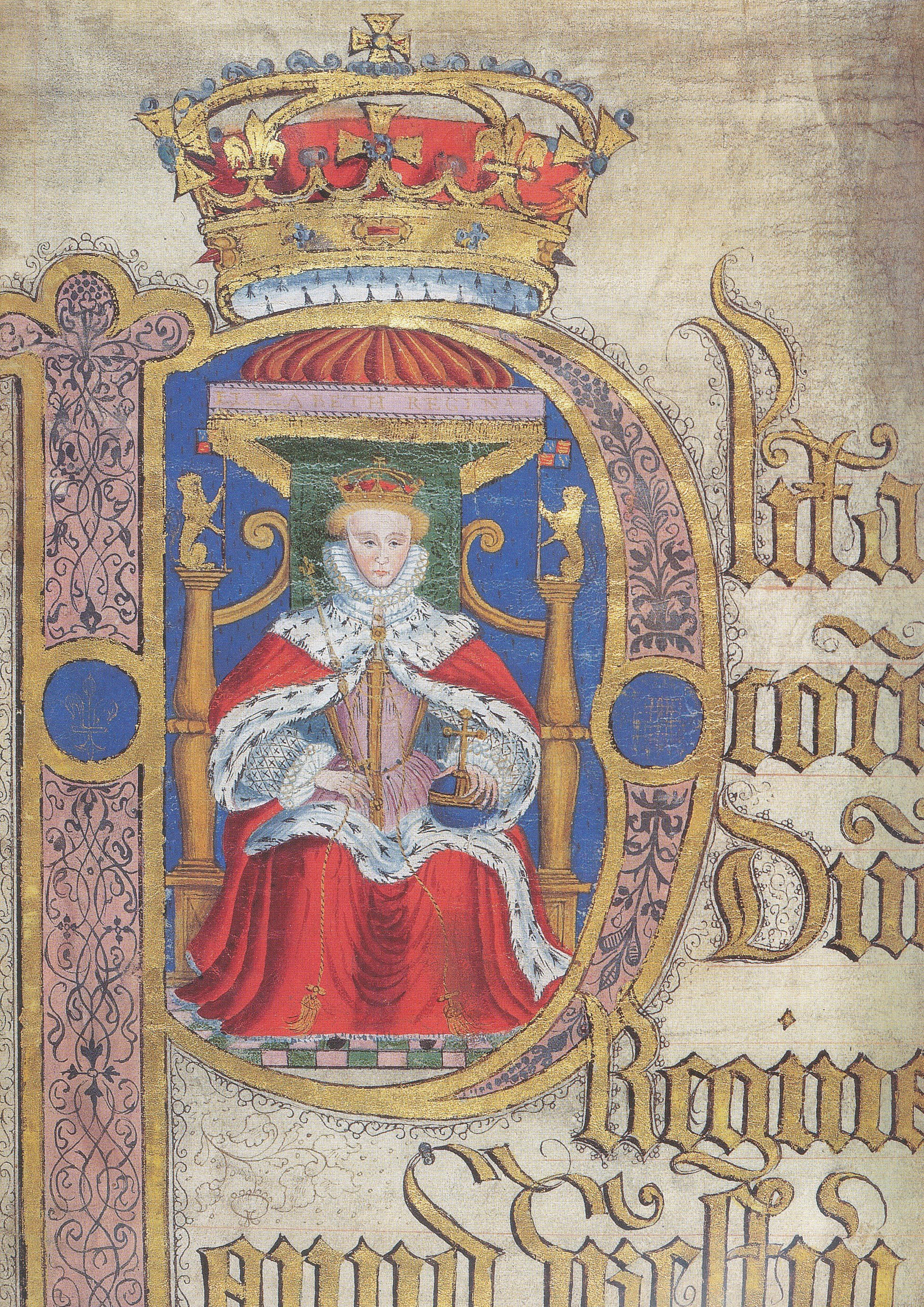 Illuminated initial membrane, with portrait of Elizabeth I, Court of King's Bench: Coram Rege Roll (Easter Term, 1584). The King's Bench was the senior common law court until 1875, dealing with crimninal offences. The decorative initial P was the "Placita" (plea) put before the queen. The portraits were commissioned by court officials from artists and are unique, though they came to follow a standard design. Art historian Erna Auerbach pointed out that this roll shows a new type of the queen's portrait on a highly decorative top membrane. The Roman P is decorated with black arabesques on a mauve ground within golden bands and intersected by two royal blue roundels with fleur de lys and portcullis. The queen's face is conventional rather than portrait-like and is represented in sharp lines. Auerbach speculatively identifies the draughtsmanship with George Gower: "This portrait on the Easter Roll of 1584 is of outstanding importance, for with it artistic experiment came to an end. The year 1584 is a significant date. It was the year in which the monopoly of royal portraiture was drafted in favour of Gower and Hilliard. Though, in this monopoly, the province of limning was assigned to Hilliard, it must be admitted that the treatment of the limning on the Plea Rolls of 1584 suggest Gower's manner rather than Hilliard's. And, in fact, a comparison of the Queen's portrait with the painting of Lady Kytson by Gower shows undoubted similarities in the rather dry and linear conception of the face and the pattern of the material". (Reference: Erna Auerbach, Tudor Artists: A Study of Painters in the Royal Service and of Portraiture on Illuminated Documents from the Accession of Henry VIII to the Death of Elizabeth I, London: Athlone Press, 1954, pp. 129–30.)